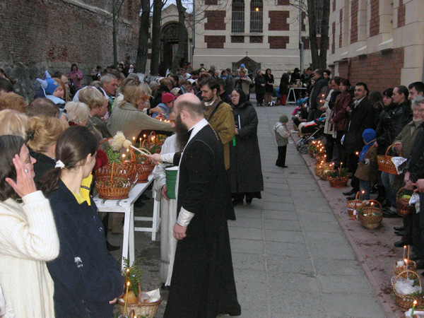 Russian Orthodox Easter ceremony in Lvov (Western Ukraine)